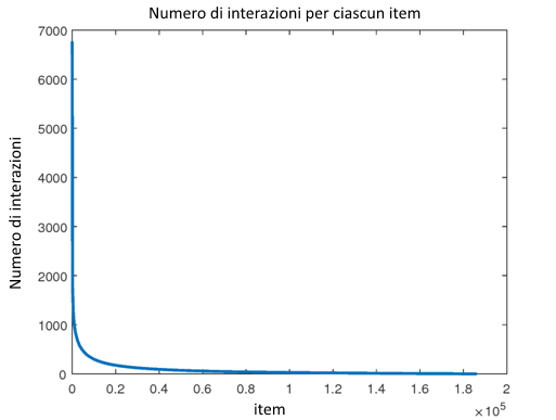 Number of user interactions associated to each item in a Movielens dataset. Few items have a very high number of interactions, more than 5000, while most of the others have less than 100